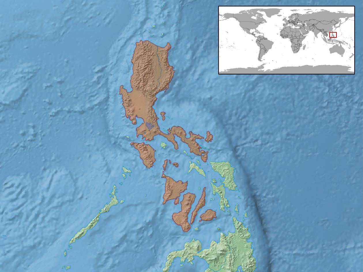 geographic distribution of Hydrosaurus pustulatus (Native: Philippines)